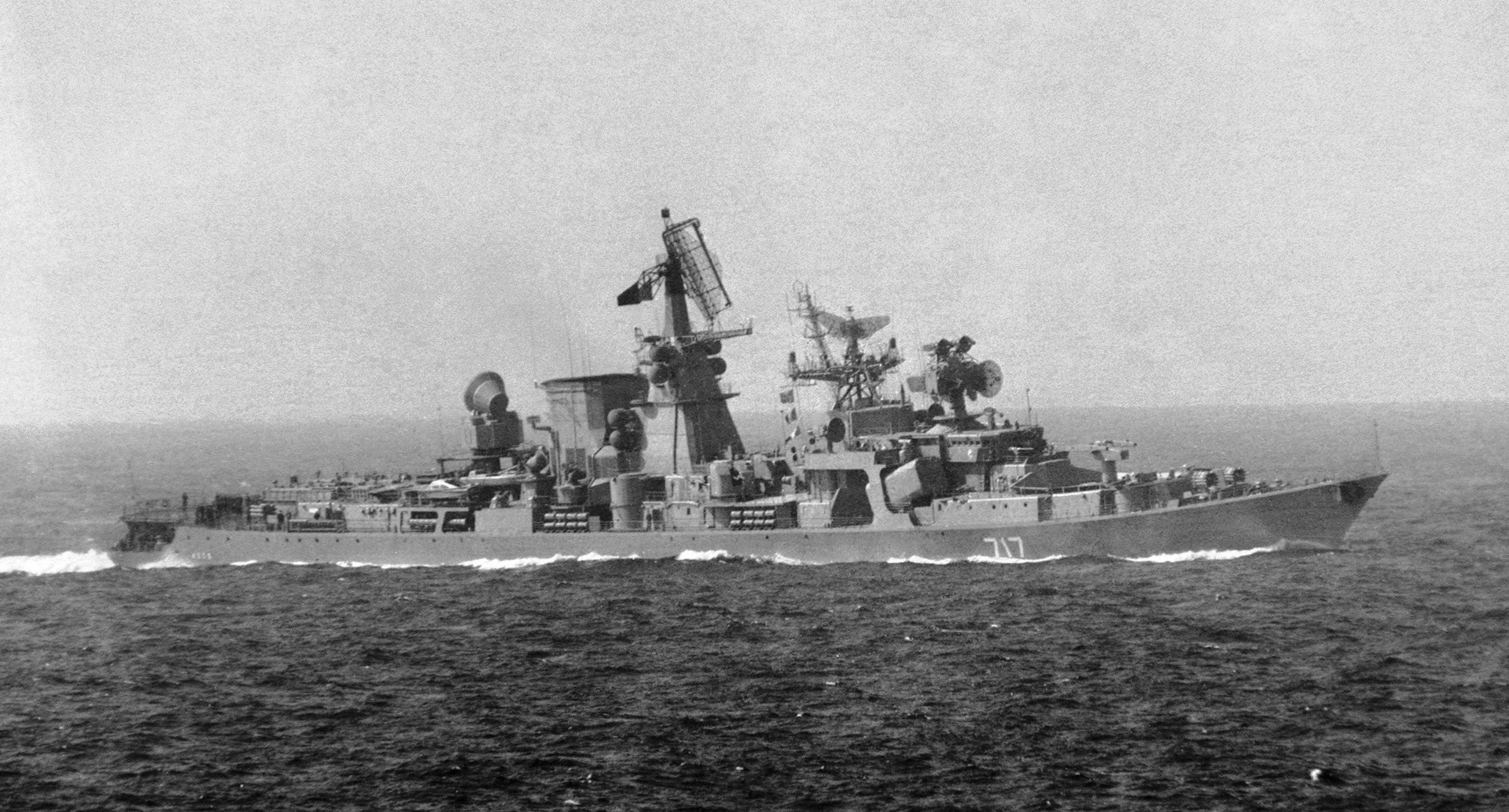 A starboard beam view of the Soviet Kara class guided missile cruiser AZOV underway.